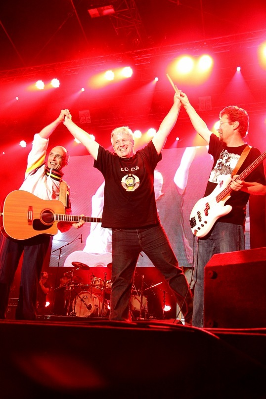 Fest CellAir MusicDays